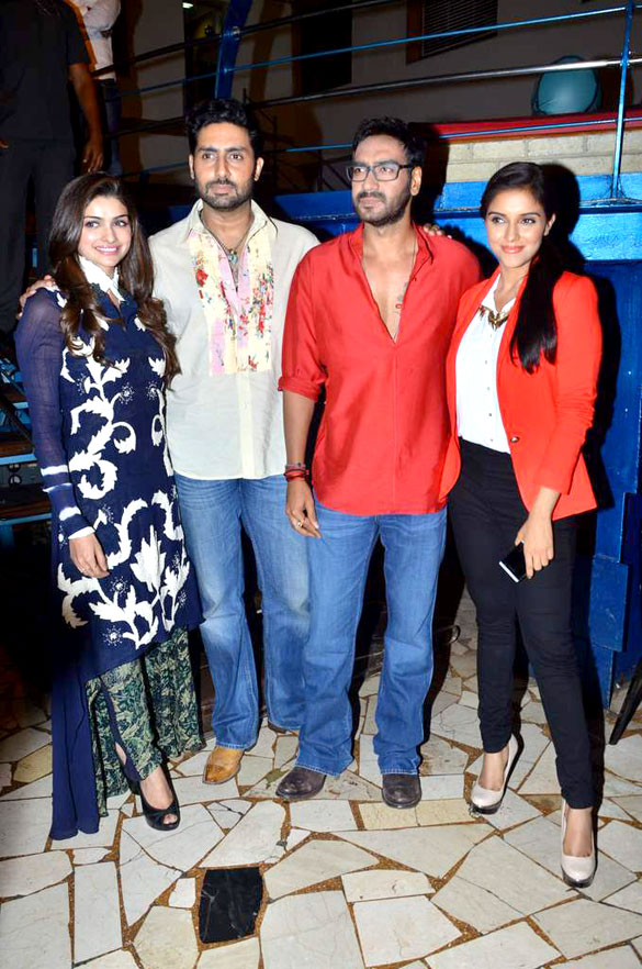 Prachi Desai, Abhishek Bachchan, Ajay Devgn, Asin 'Bol Bachchan' team on the sets of Taarak Mehta Ka Ooltah Chashmah